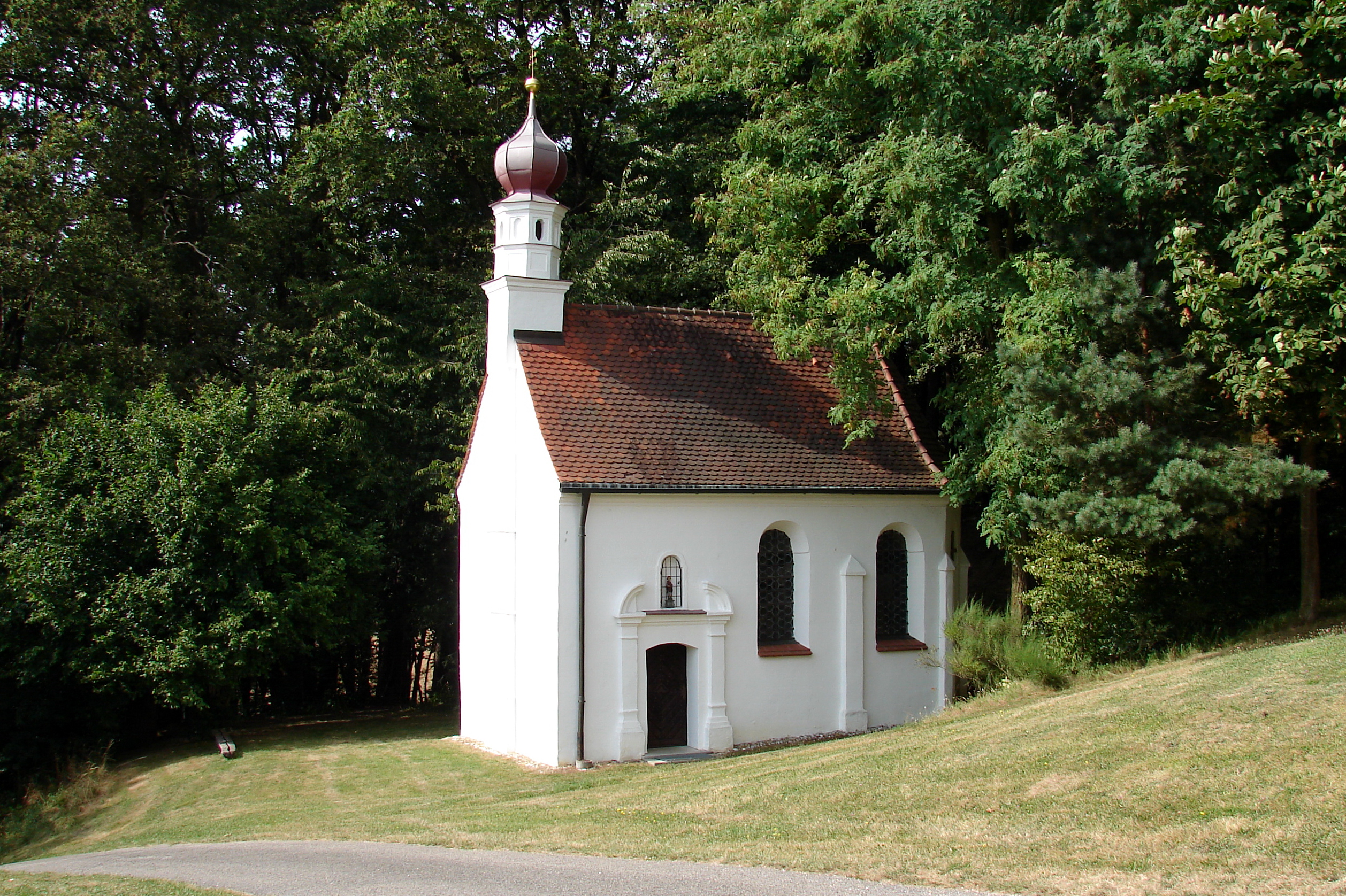 Sankt Kastl: Wallfahrtskapelle